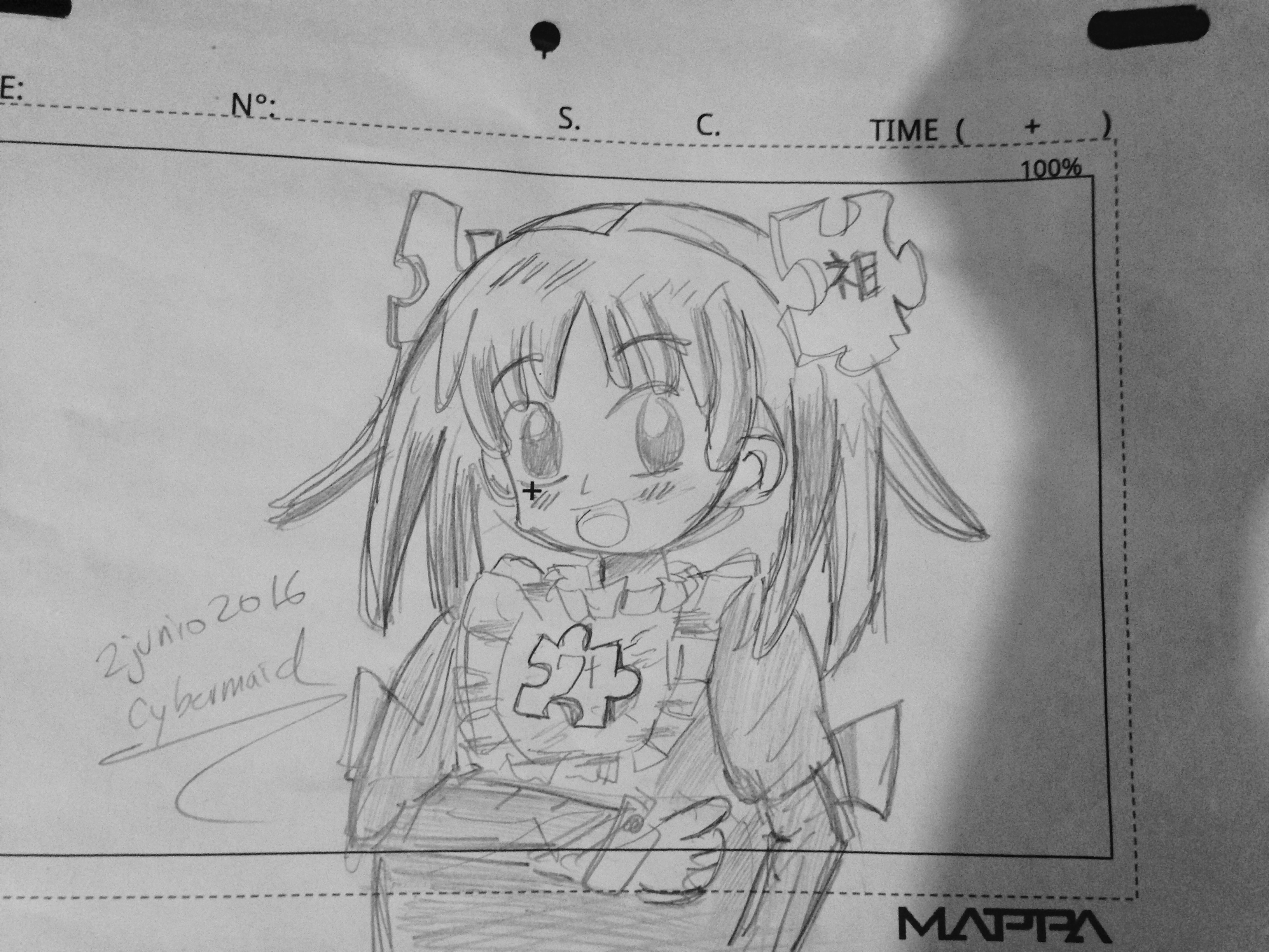 Anime cel detail, the drawings represent a fotogram in the animation process, cels are used for key animation and in-between animation; this is a sketch with a draw of Wikipe-tan, Wilipedia mascot